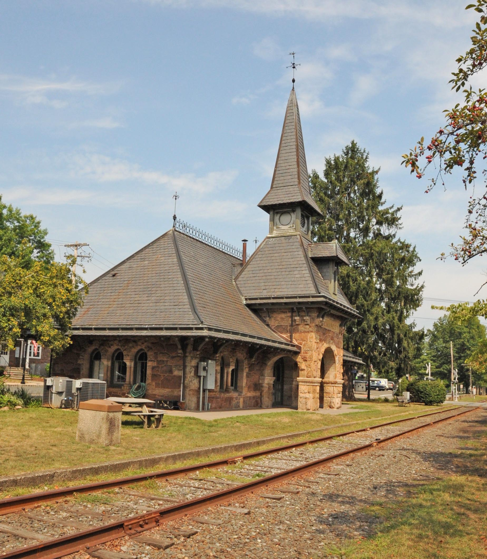 BUILT IN 1872 FOR THE NORTHERN RAILROAD OF NEW JERSEY OF PALISADES STONE AND CONSIDERED THE “HANDSOMEST ON THE LINE”